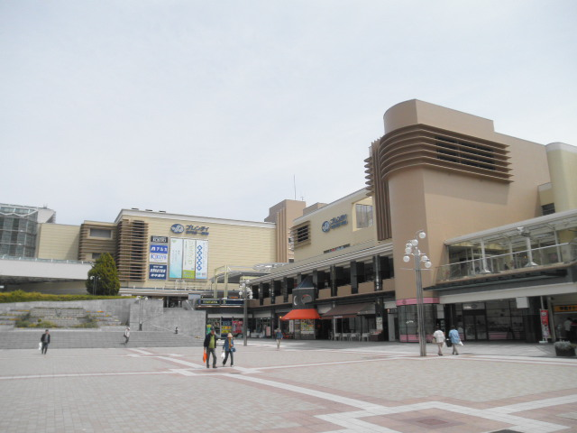 Plenty